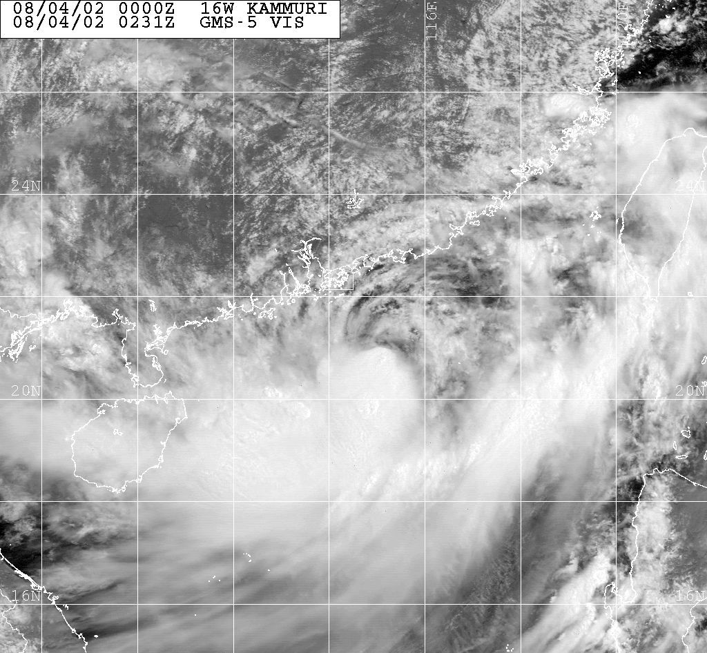 Tropical Storm Kammuri on August 4, 2002.